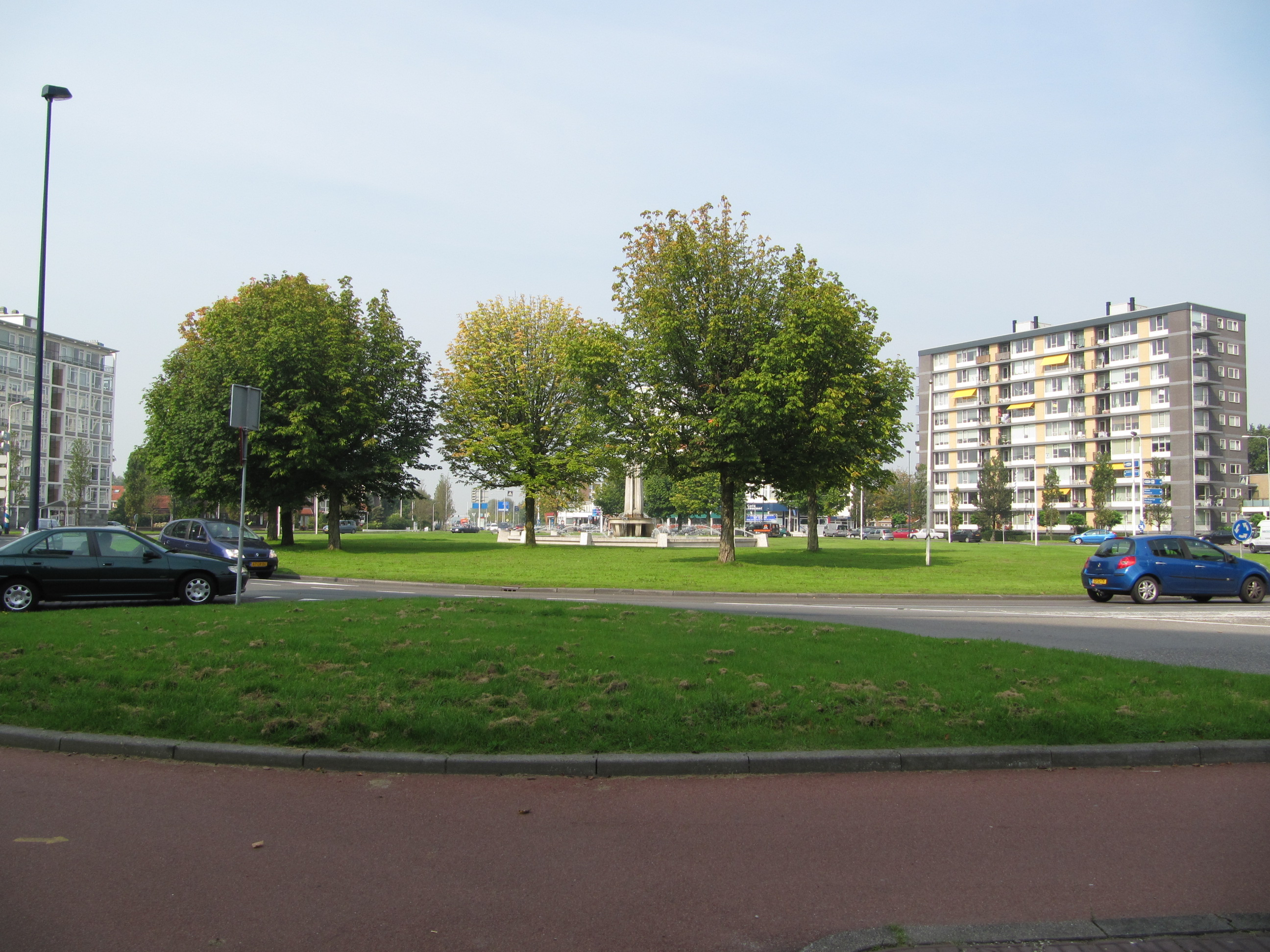 Europaplein (Leeuwarden)